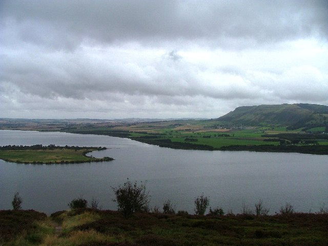 Loch Leven, looking north from Vane Farm.